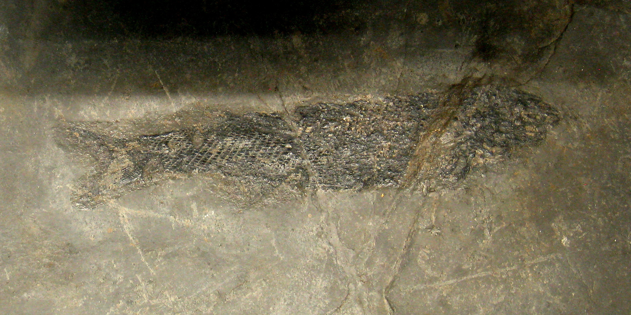 Redfieldius gracilis (jr synonym Redfieldia gracilis). Exhibit Museum of Natural History, University of Michigan, 1109 Geddes Avenue, Ann Arbor, Michigan, USA.